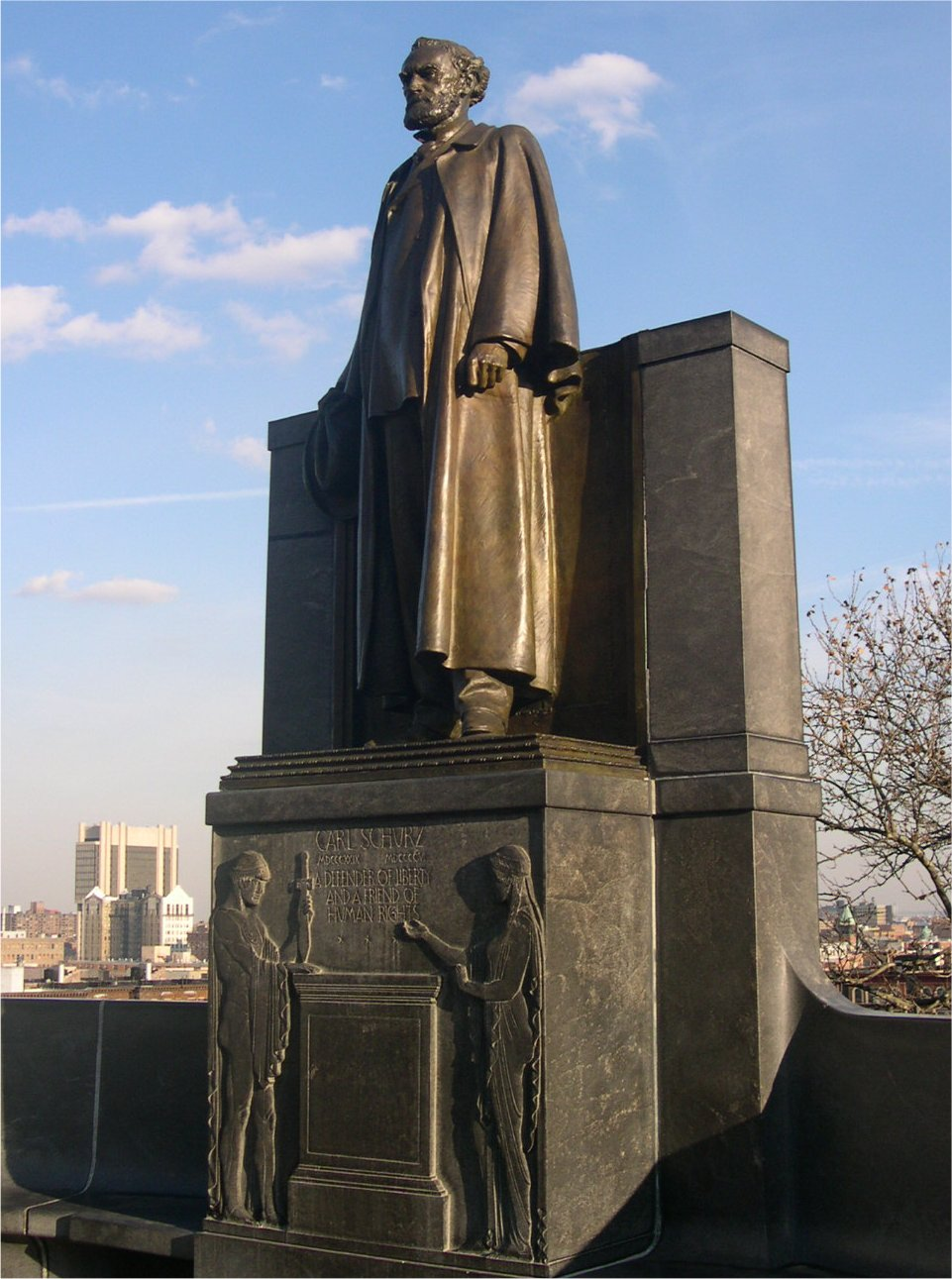 Statue of Carl Schurz at Morningside Drive and 116th Street, New York City, New York, US. By Karl Bitter (1913). Located immediately east of Columbia University. Inscription: "CARL SCHURZ/MDCCCXXIX MDCCCVI/A DEFENDER OF LIBERTY/AND A FRIEND OF/HUMAN RIGHTS" Taken by Dan Anderson 2005 and released to PD.